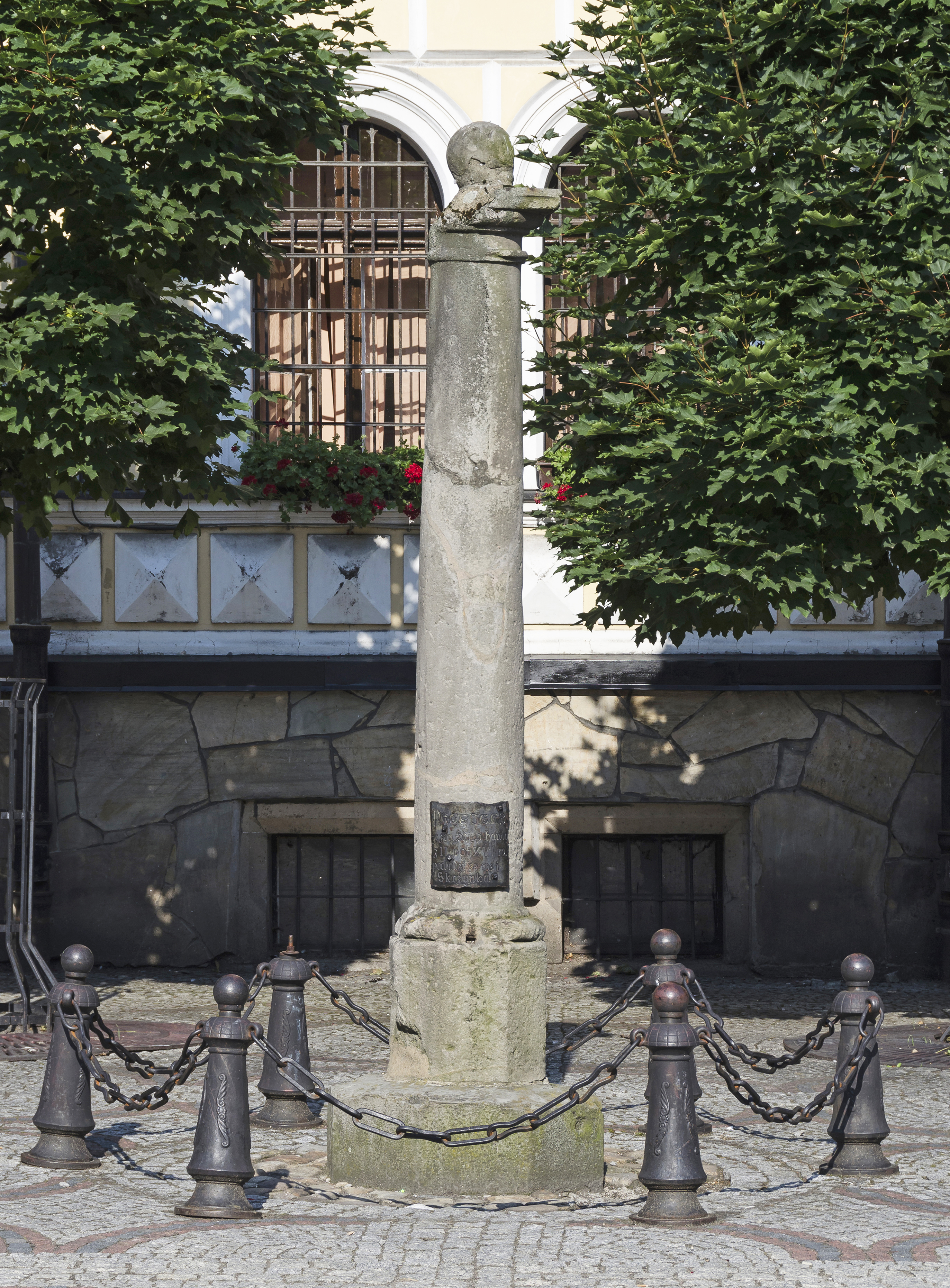 Pillory in Lądek-Zdrój